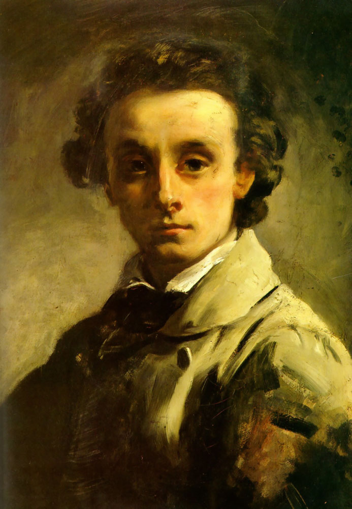 Selfportrait